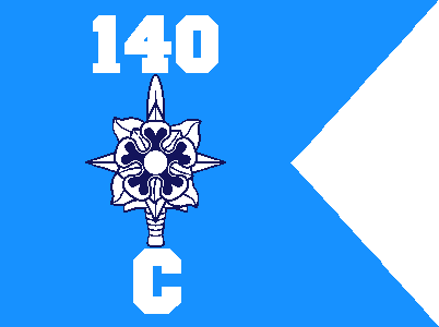 guidon of Company C, 140th Military Intelligence Battalion (United States)